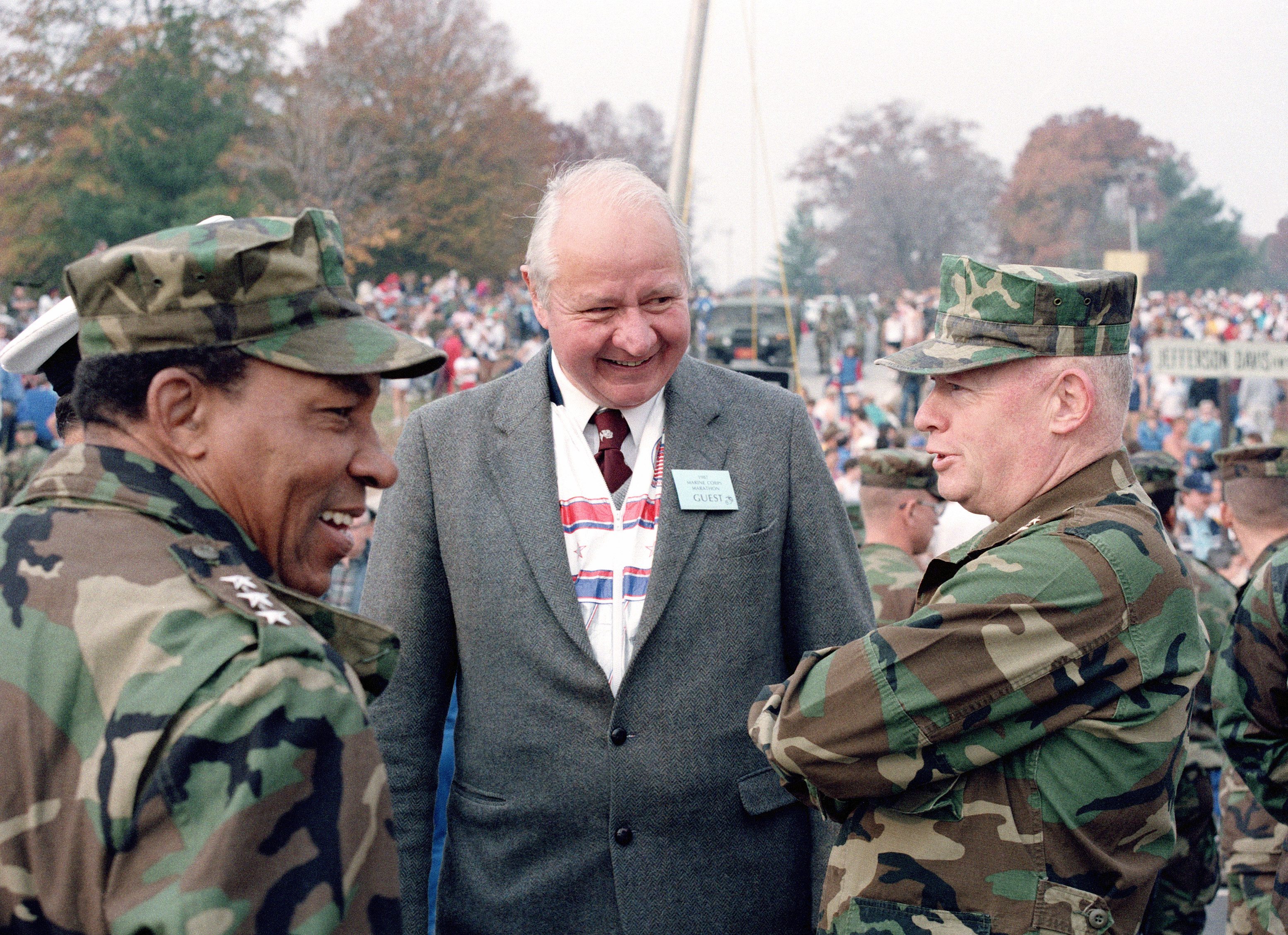 Former Secretary of the Navy J. William Middendorf II talks with Lt. Gen. Frank E. Petersen, left, commanding general, Marine Corps Development and Education Command (MCDEC), and the Commandant of the Marine Corps, Gen. Alfred M. Gray, prior to the start of the 1987 Marine Corps Marathon on November 8, 1987.